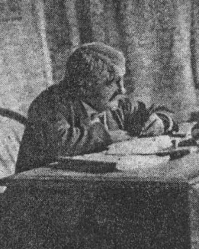 Photograph of the Romanian Bessarabian writer Dumitru C. Moruzi at his writing desk.